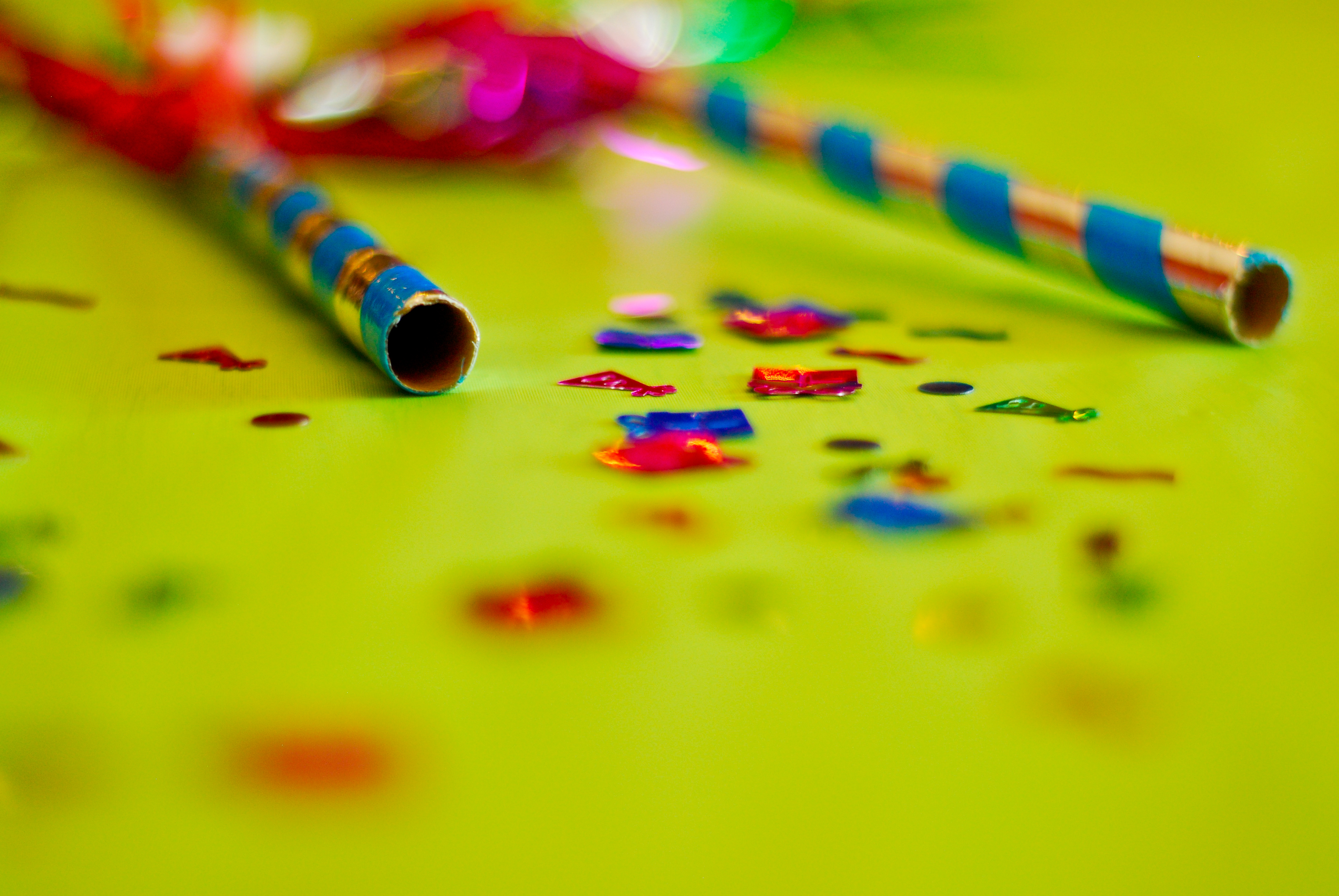 A pair of hats and confetti from a party.